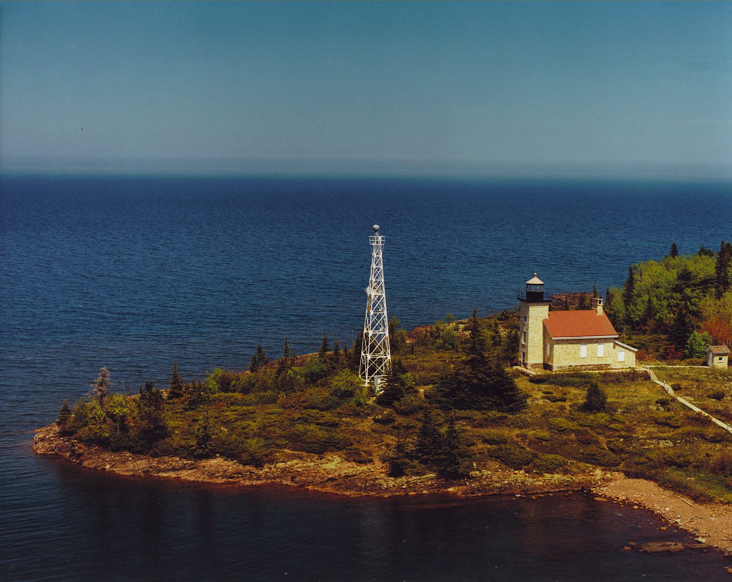 The Copper Harbor lighthouse in Fort Wilkins Historic State Park near Copper Harbor, Michigan, USA. The lighthouse is situated on the northern coast of the Keweenaw Peninsula on the Michigan coast of Lake Superior.